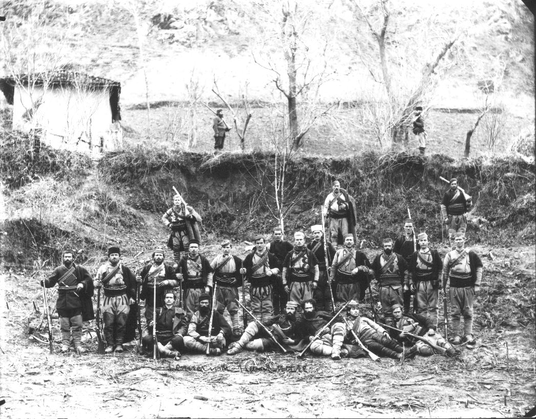 Cheta of IMARO voivoda Smile Voydanov.